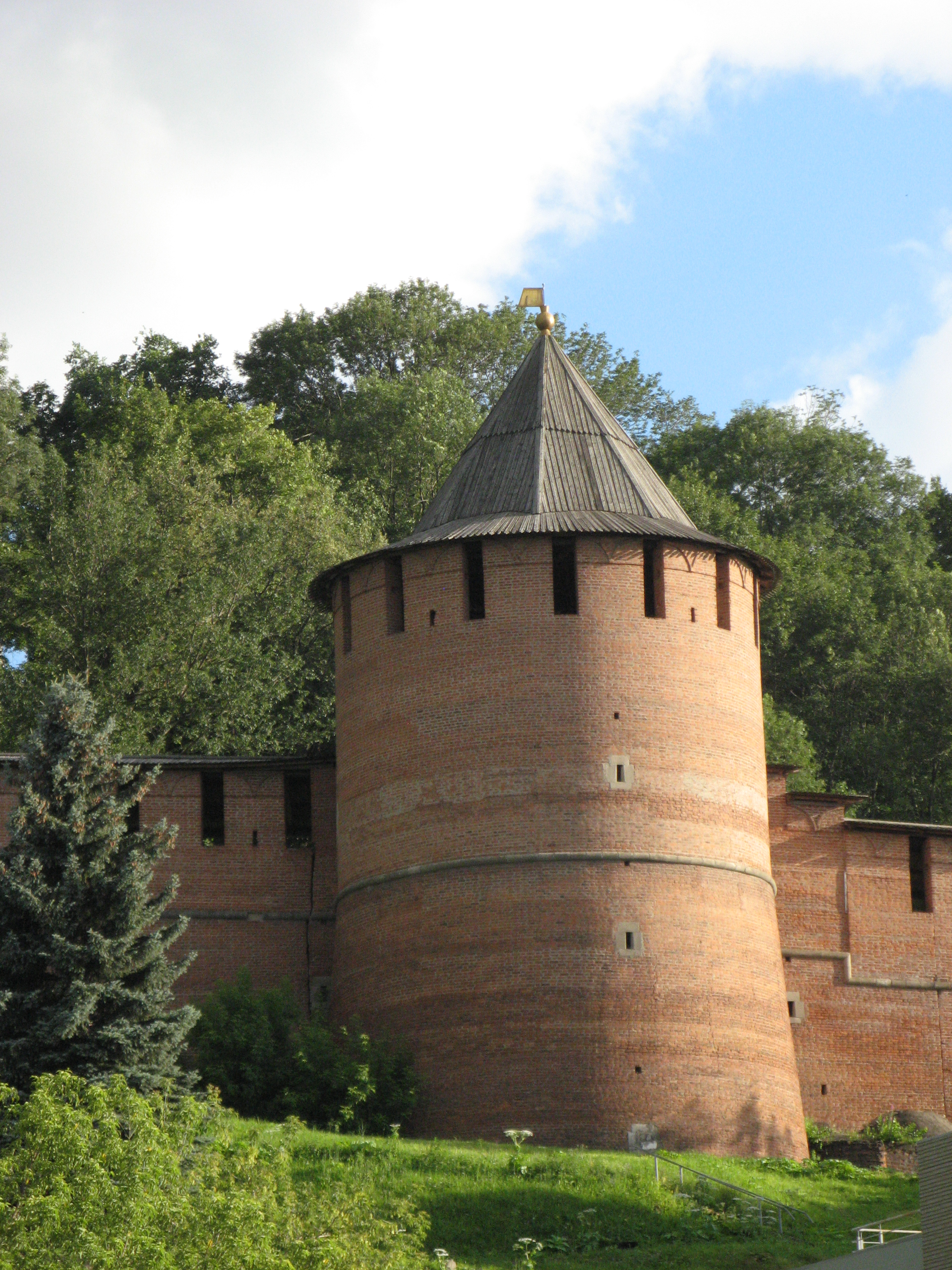 Borisoglebskaya Tower of Nizhny Novgorod Kremlin